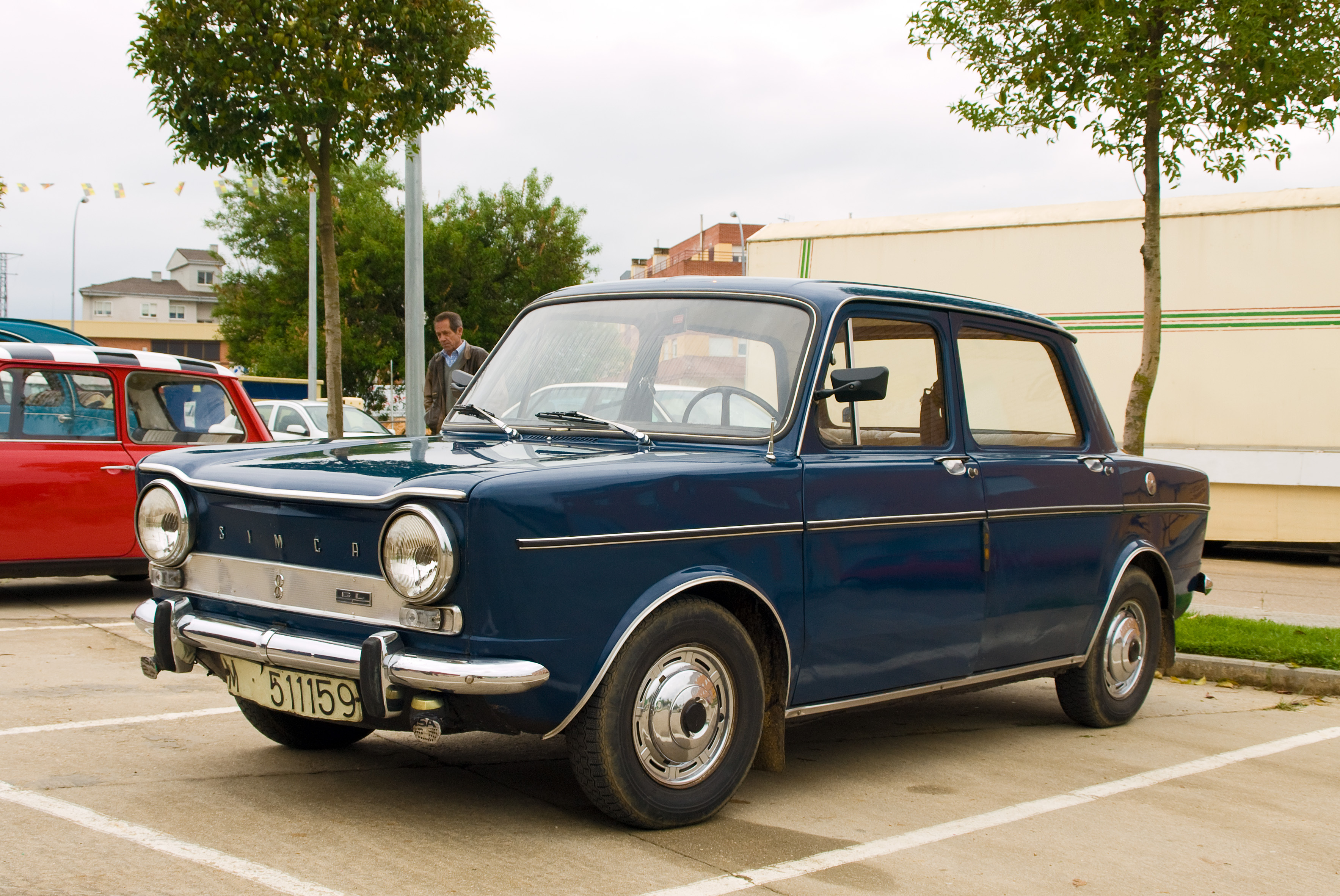 Simca 1000, produced in Spain by Barreiros